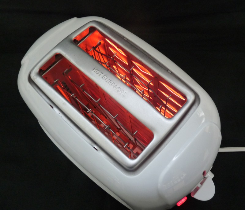 A toaster with one broken element